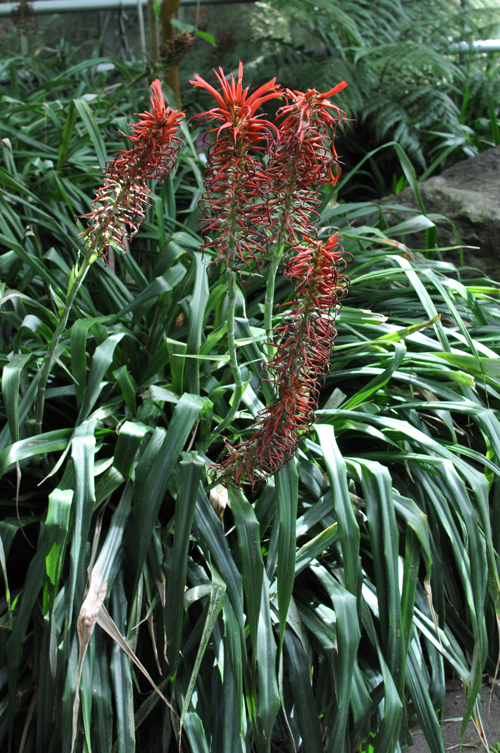 Pitcairnia spicata Conservatoire botanique national de Brest Native nameConservatoire botanique national de BrestLocationBrest, FranceCoordinates48° 24′ 10.35″ N, 4° 26′ 53.58″ W Established1975: established, 1978: opened to publicWeb page Authority control : Q2994486 VIAF: 135879850 ISNI: 0000 0000 9261 8684 LCCN: no95047958 WorldCat institution QS:P195,Q2994486